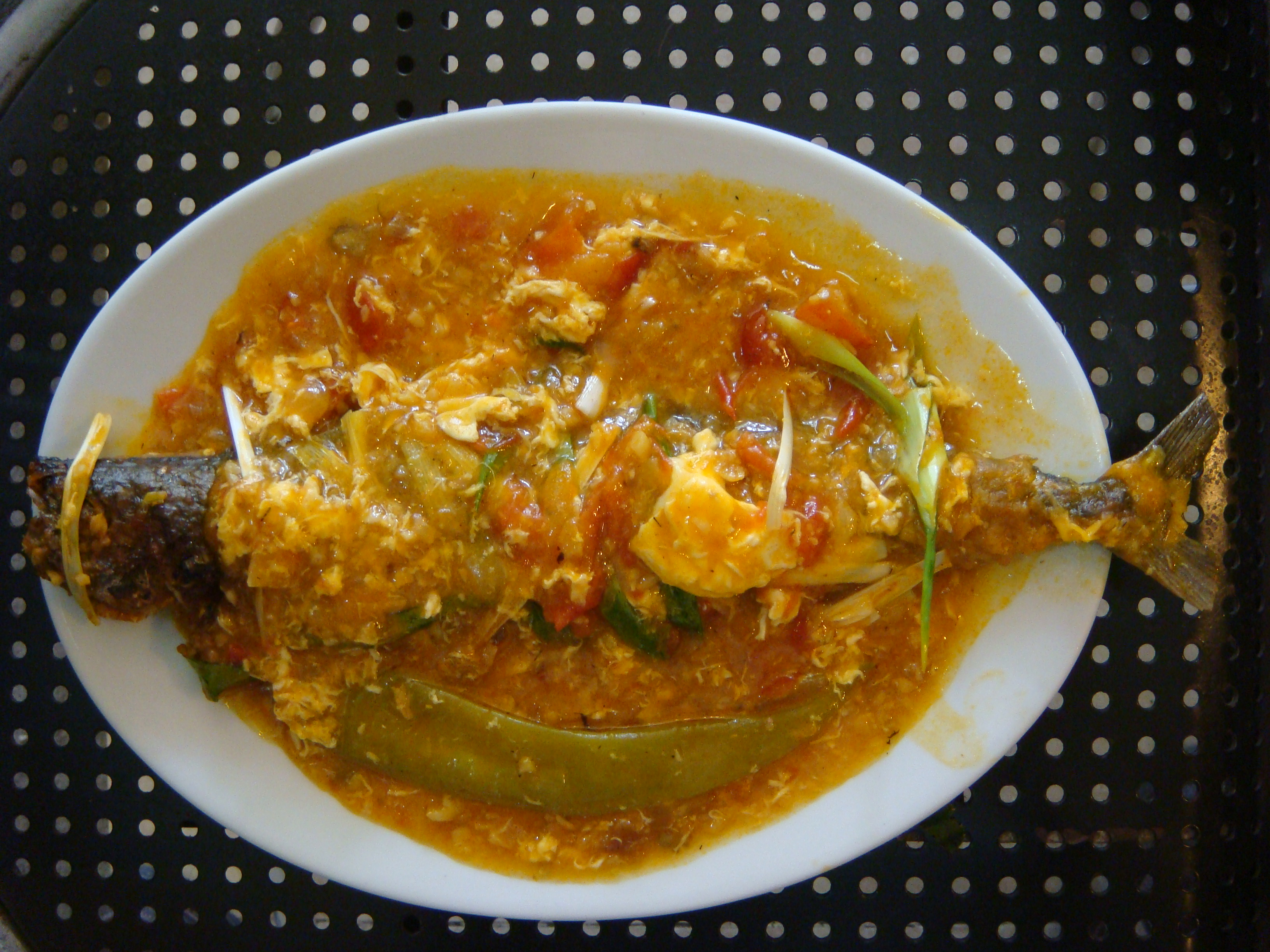 Tanigue dish (Narrow-barred Spanish mackerel)